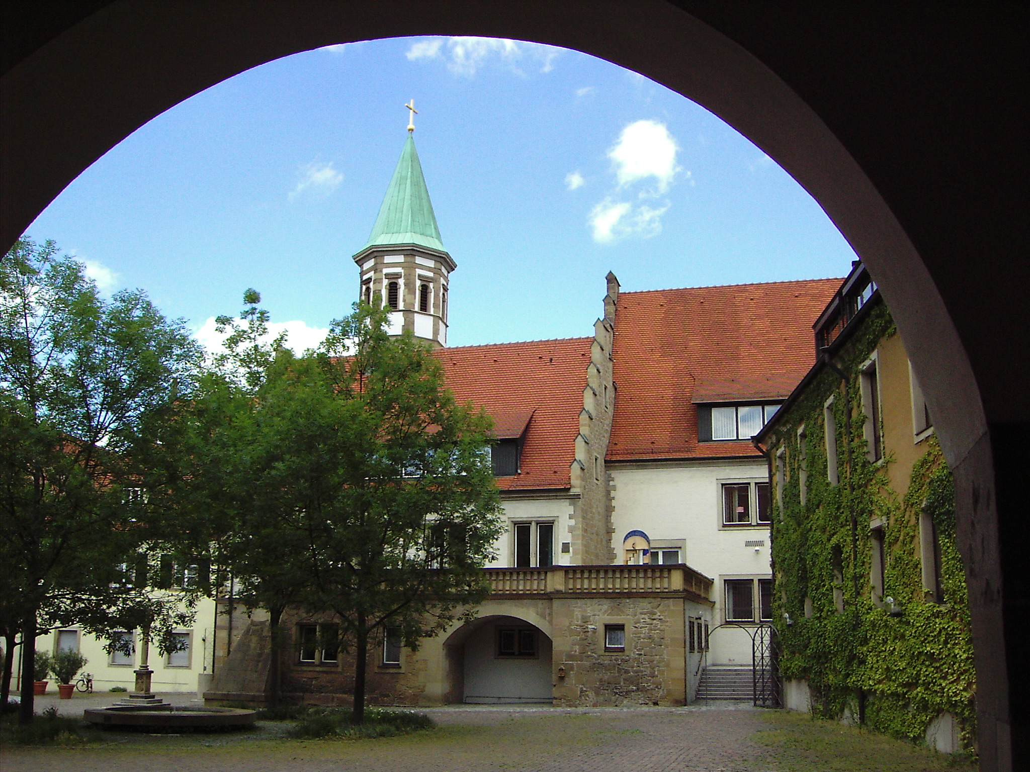 Courtyard so called "Deutschhof" of the City Heilbronn